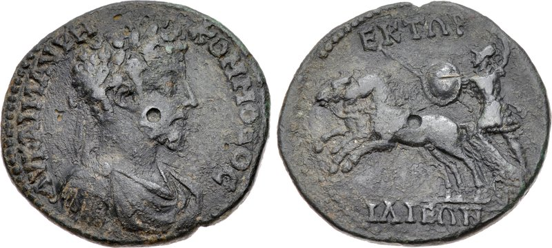 Troas, Ilium. Commodus. AD 177-192. Æ (36mm, 22.12 g). AΥ(TK)AI M AΥPH KOMMOΔOΣ, laureate, draped, and cuirassed bust right / EKTΩP above, IΛIEΩN in exergue, Hector, brandishing shield and spear, in biga left.